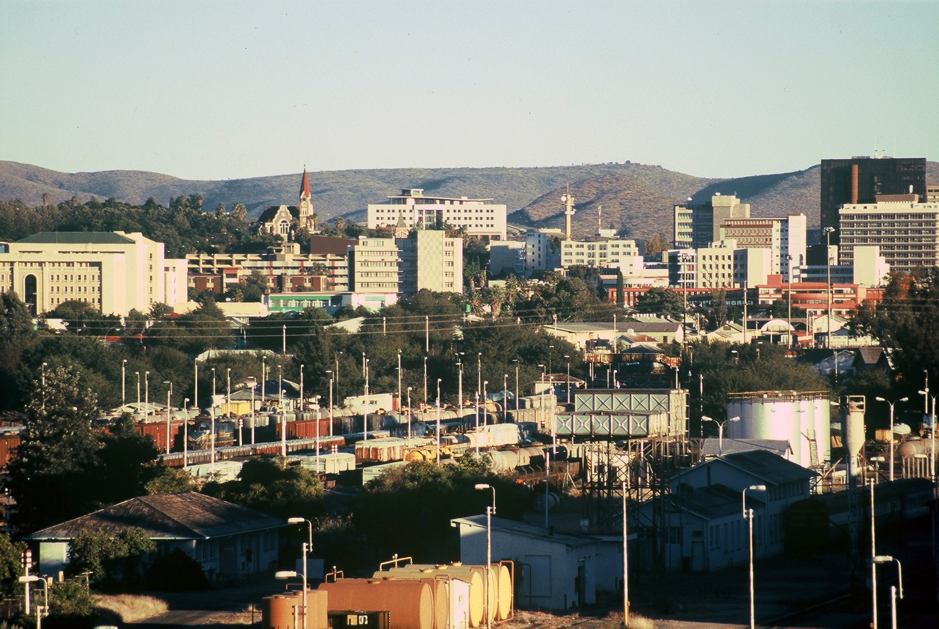 A picture of the skyline of Windhoek, Namibia. In the foreground you can see the location of TransNamib, The Namibian Railway. The mountains of the Khomas Hochland dominate the horizon with the Christuskirche visible in the middle.